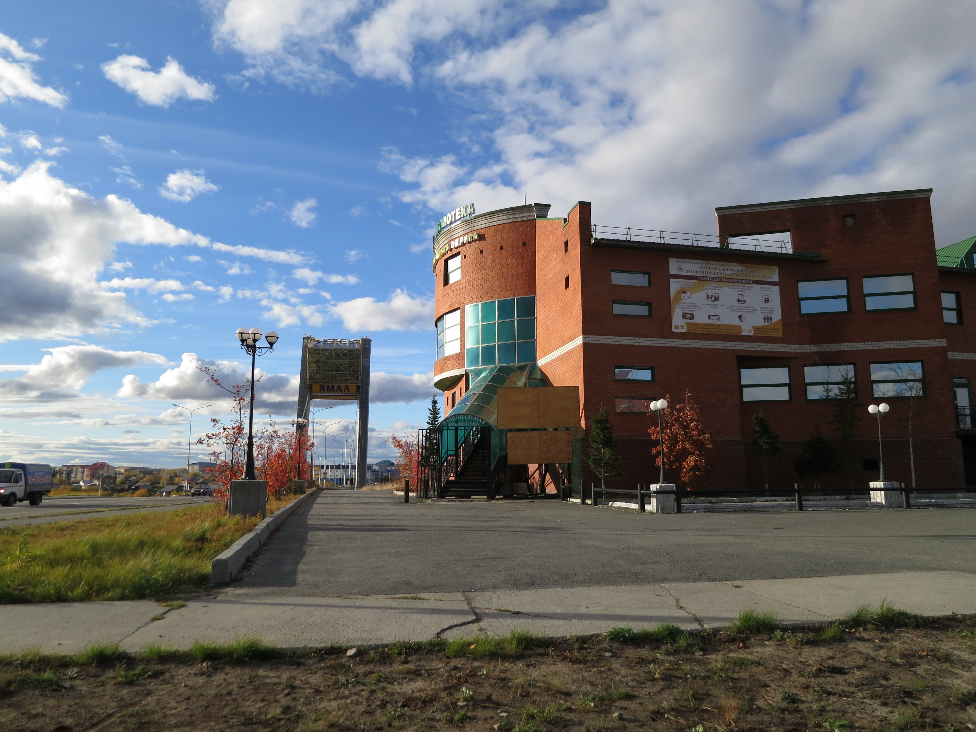 Yamalo-Nenets Autonomous Okrug National Library, Salekhard